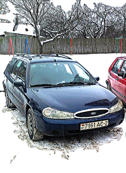 Ford mondeo